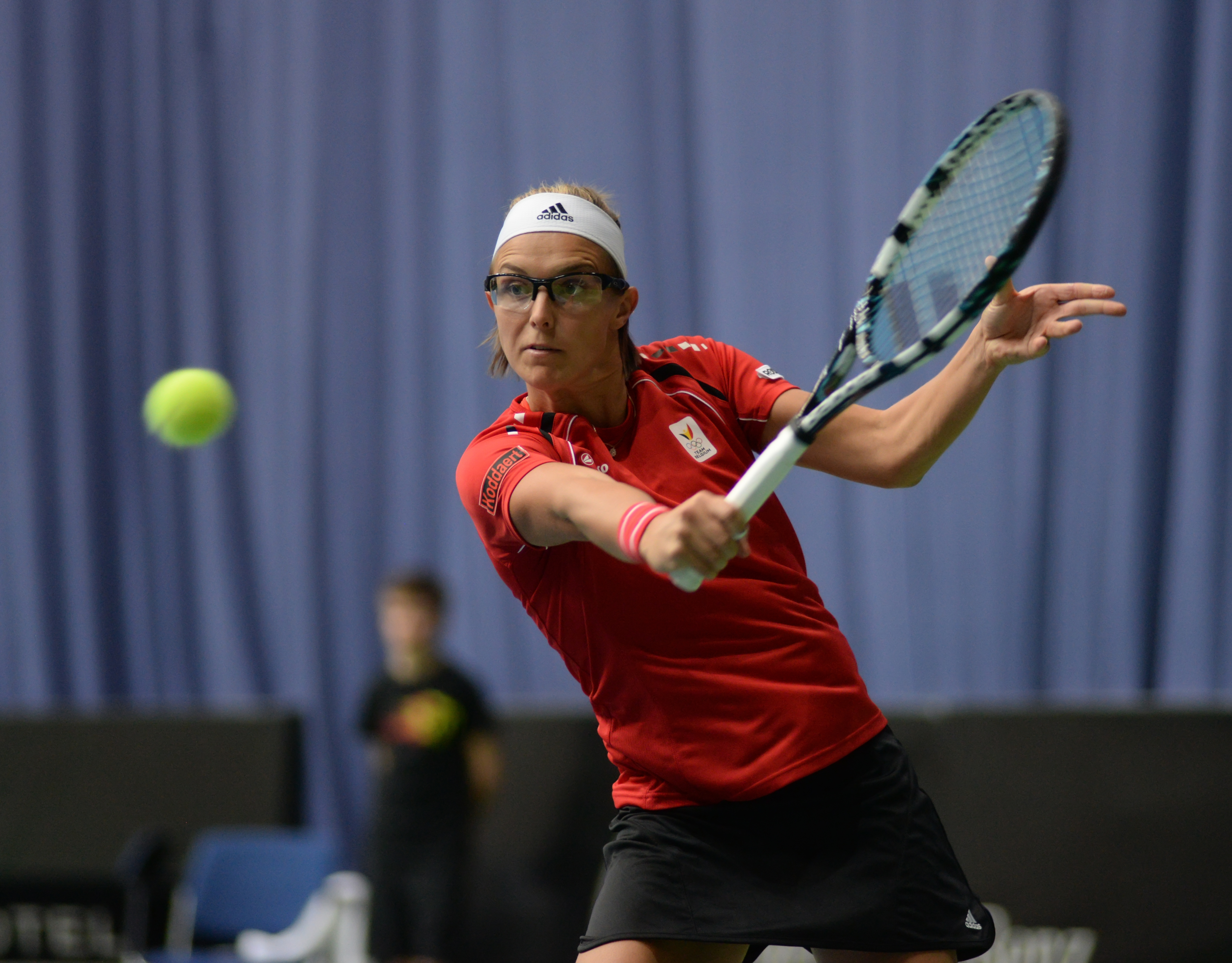 Kirsten Flipkens at the 2015 Fed Cup